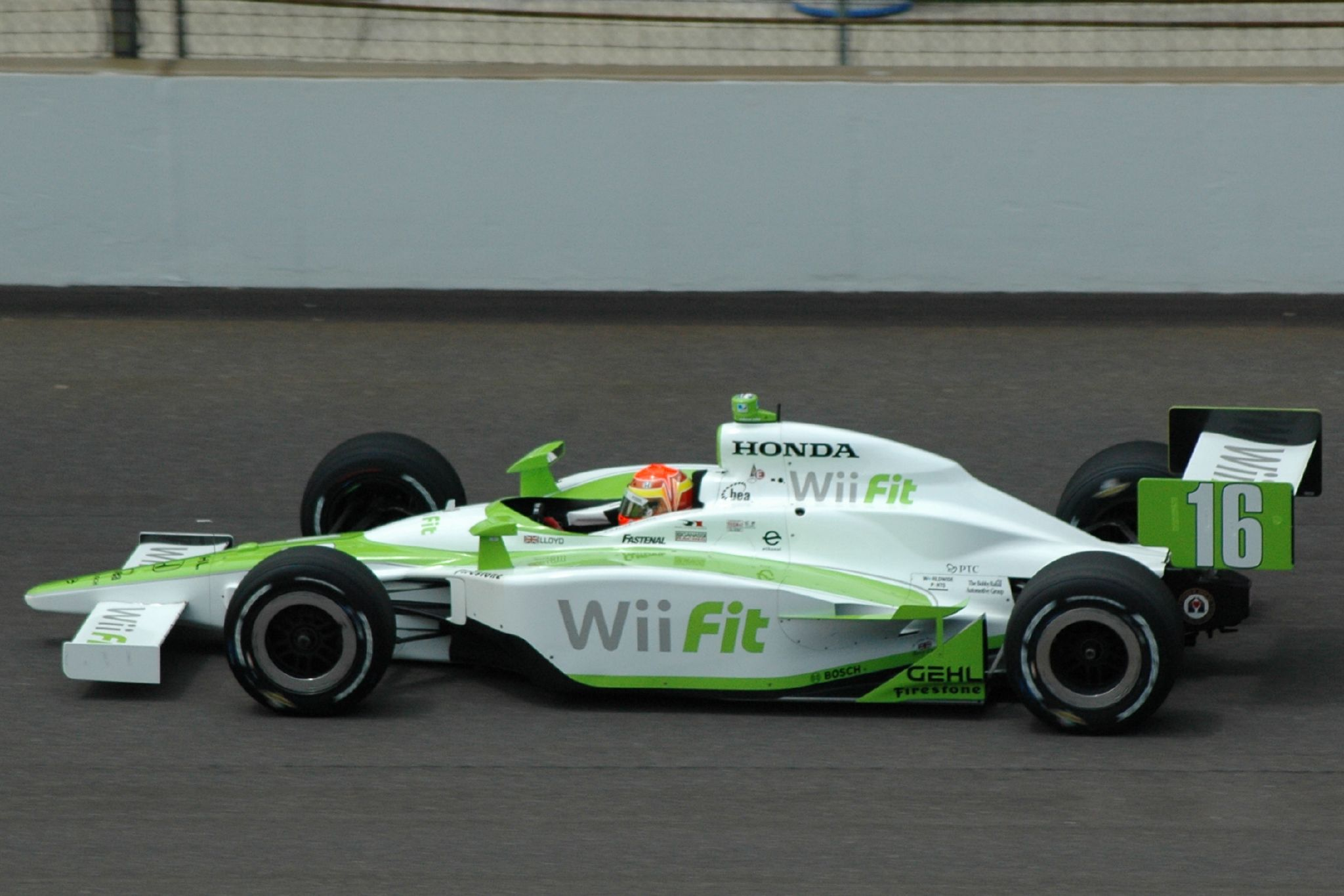 Alex Lloyd practices for the 2008 Indianapolis 500.